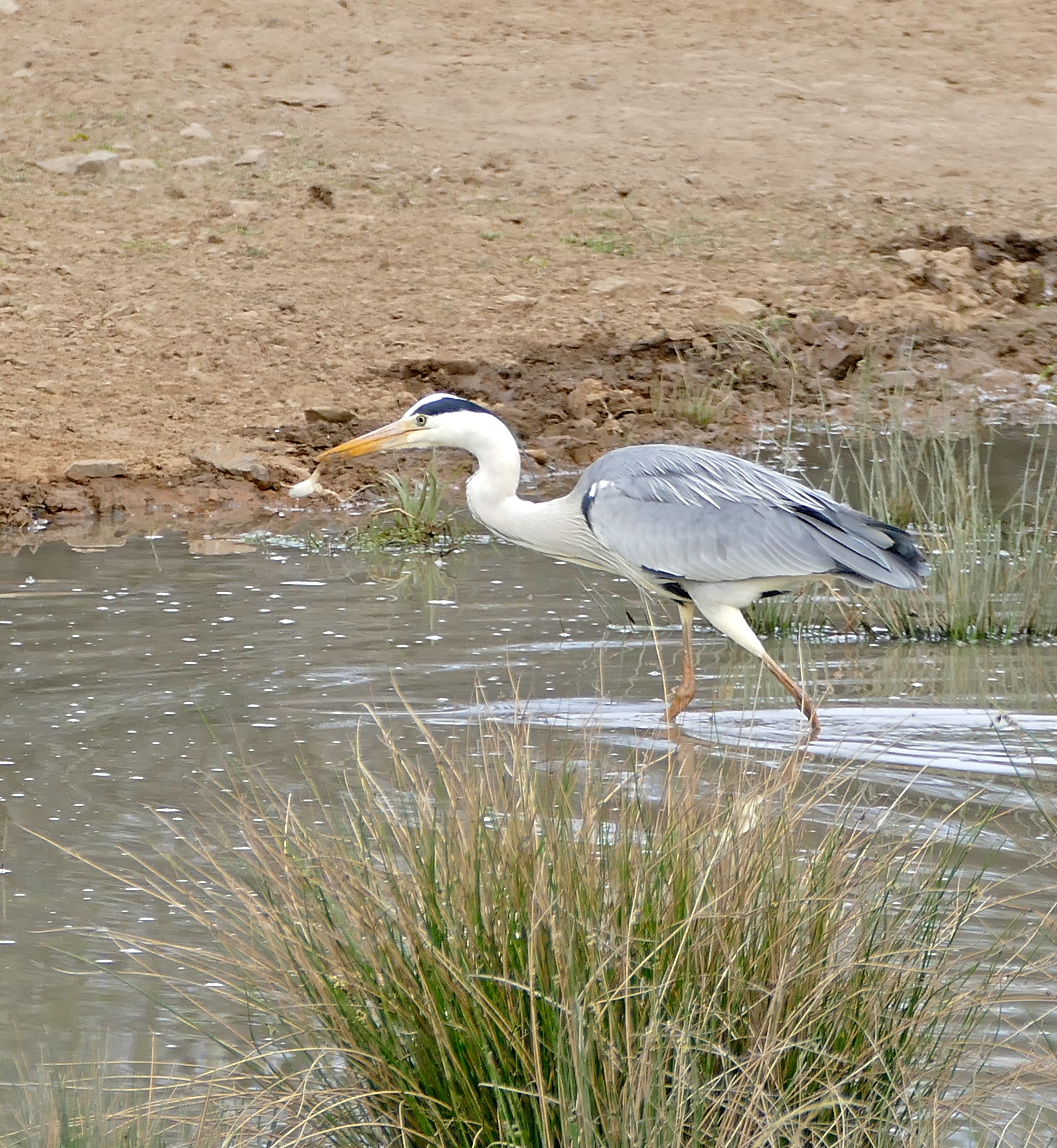 Link Road, Mountain Zebra NP, Eastern Cape, SOUTH AFRICA